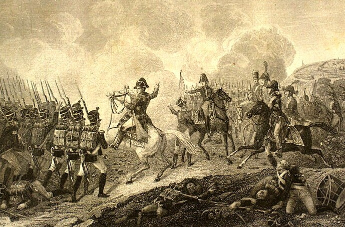 Lutzen, Battle of (1813). Napoléon with his troops.